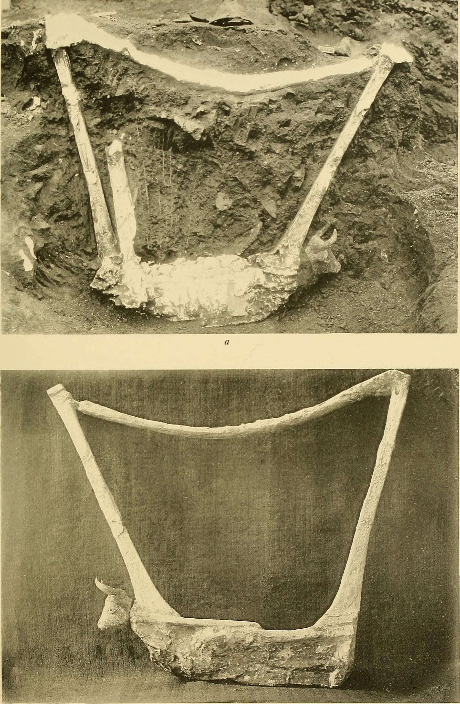 Title: Ur excavations Year: 1900 (1900s) Authors: Joint Expedition of the British Museum and of the Museum of the University of Pennsylvania to Mesopotamia Hall, H. R. (Harry Reginald), 1873-1930, ed Woolley, Leonard, Sir, 1880-1960 Legrain, Leon, 1878- ed Subjects: Publisher: (n.p.) Pub. for the Trustees of the Two Museums by the aid of a grant from the Carnegie Corporation of New York Text Appearing Before Image: PLATE ii8 Text Appearing After Image: Scale c. x% (ht. o-go m.) PG/iisi a. THE PLASTER CAST OF THE WOODEN LYRE U. I2351 ill sitU AFTER THE EARTH HAD BEEN CUT AWAY ONONE SIDE. THE WHITE LINES OF THE STRINGS ARE CLEARLY VISIBLE. THE THIRD UPRIGHT WAS NOT ATTACHED TO THE LYRE b. THE PLASTER CAST OF THE LYRE REMOVED FROM THE SOIL, SHOWING THE BETTER-PRESERVED FACE V. p. 256 PLATE 119